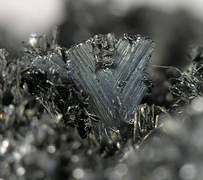 Franckeite (Var.: Potosíite), Franckeite Locality: San José Mine, Oruro City, Cercado Province, Oruro Department, Bolivia (Locality at ) Size: 10.3 x 5.5 x 3.1 cm. From the find of 2004, this specimen hosts two of the rarest sulfosalts in the world. This specimen is a very attractive, very rare, superb quality, crystallized specimen of the triclinic lead, antimony, iron, tin sulfosalt Potosiite consisting of several, extremely rare, highly lustrous, heavily striated, tabular blades (some are twinned) of Potosiite measuring up to 7 mm sitting atop crystallized and the equally rare triclinic lead, tin, iron, antimony sulfosalt Franckeite. Before these new specimens were discovered, some of the largest known crystals of Potosiite were massive, uncrystallized granules less than 1 mm in most cases.